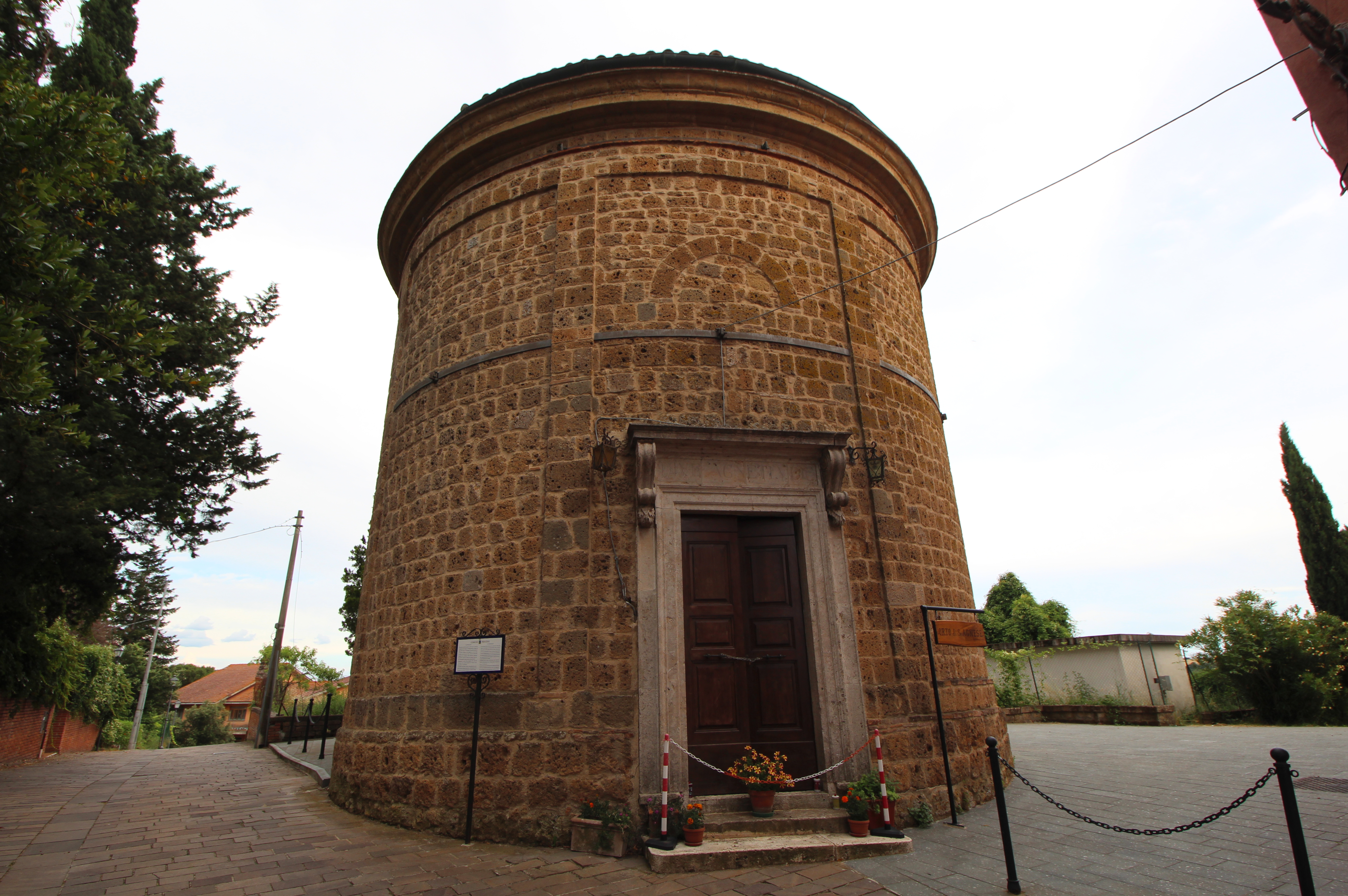 Church Sant’Agnese, Proceno, Province of Viterbo, Lazio, Italy